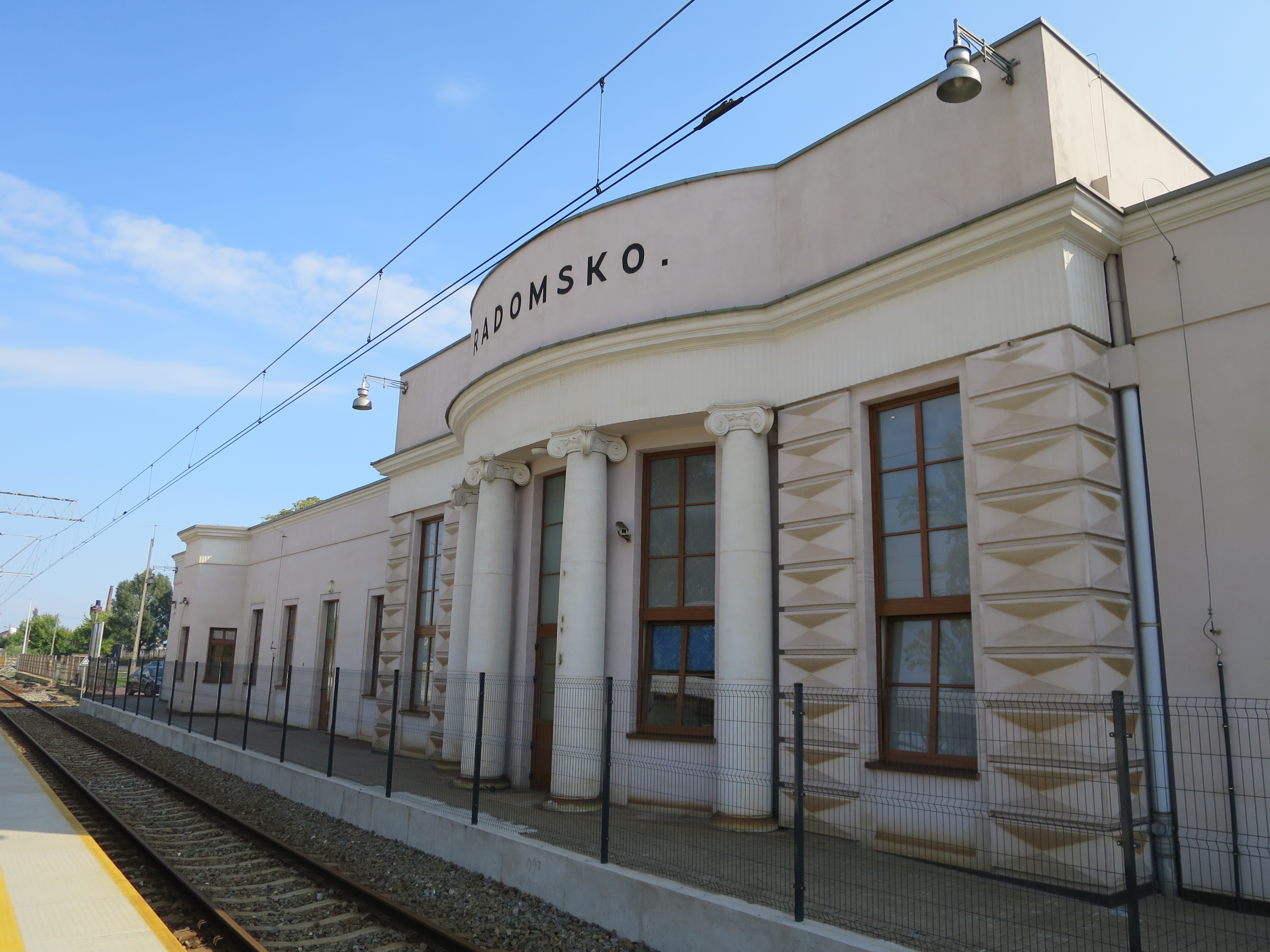 Radomsko This photo was taken during Railway Wikiexpedition 2015 set up by Wikimedia Polska Association in cooperation with Fundacja Grupy PKP. You can see all photographs in category Wikiekspedycja kolejowa 2015.